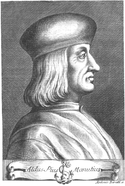 Vita di Aldo Pio Manuzio - portrait